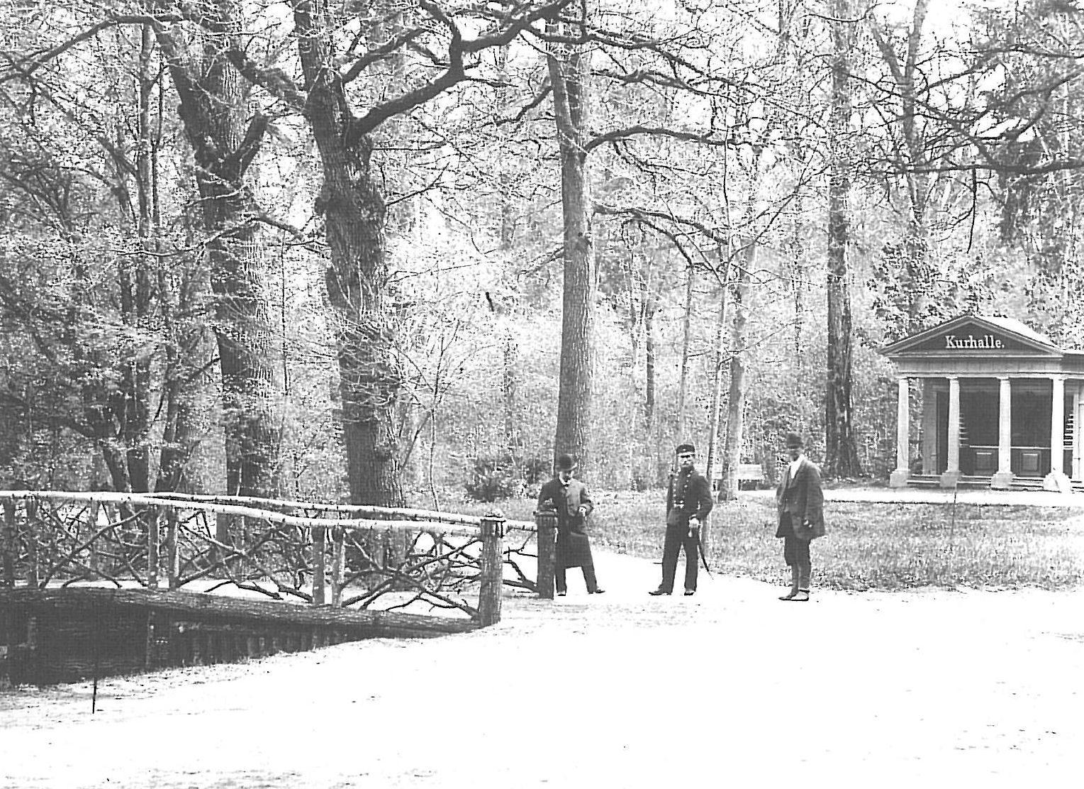 historic photography of Bamberg, Germany